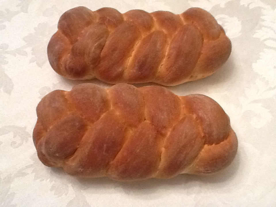 Challah, a Jewish braided bread traditionally eaten on Sabbath and holidays.